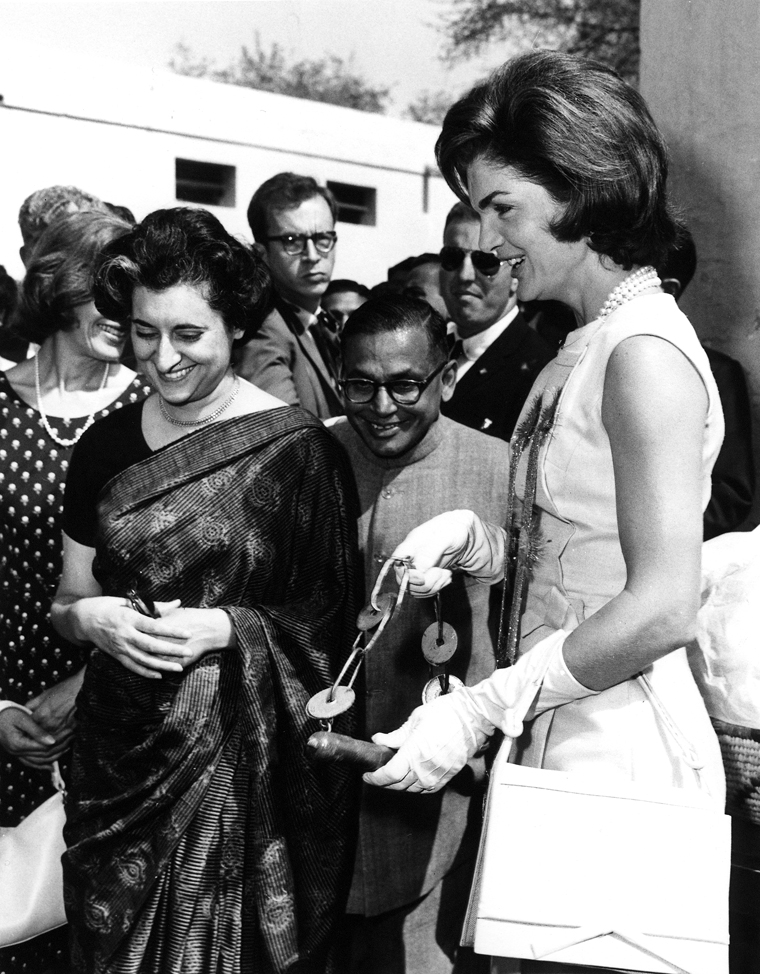 Mrs. Kennedy's visit to India. Mrs. Kennedy and Indira Gandhi in New Delhi, India.